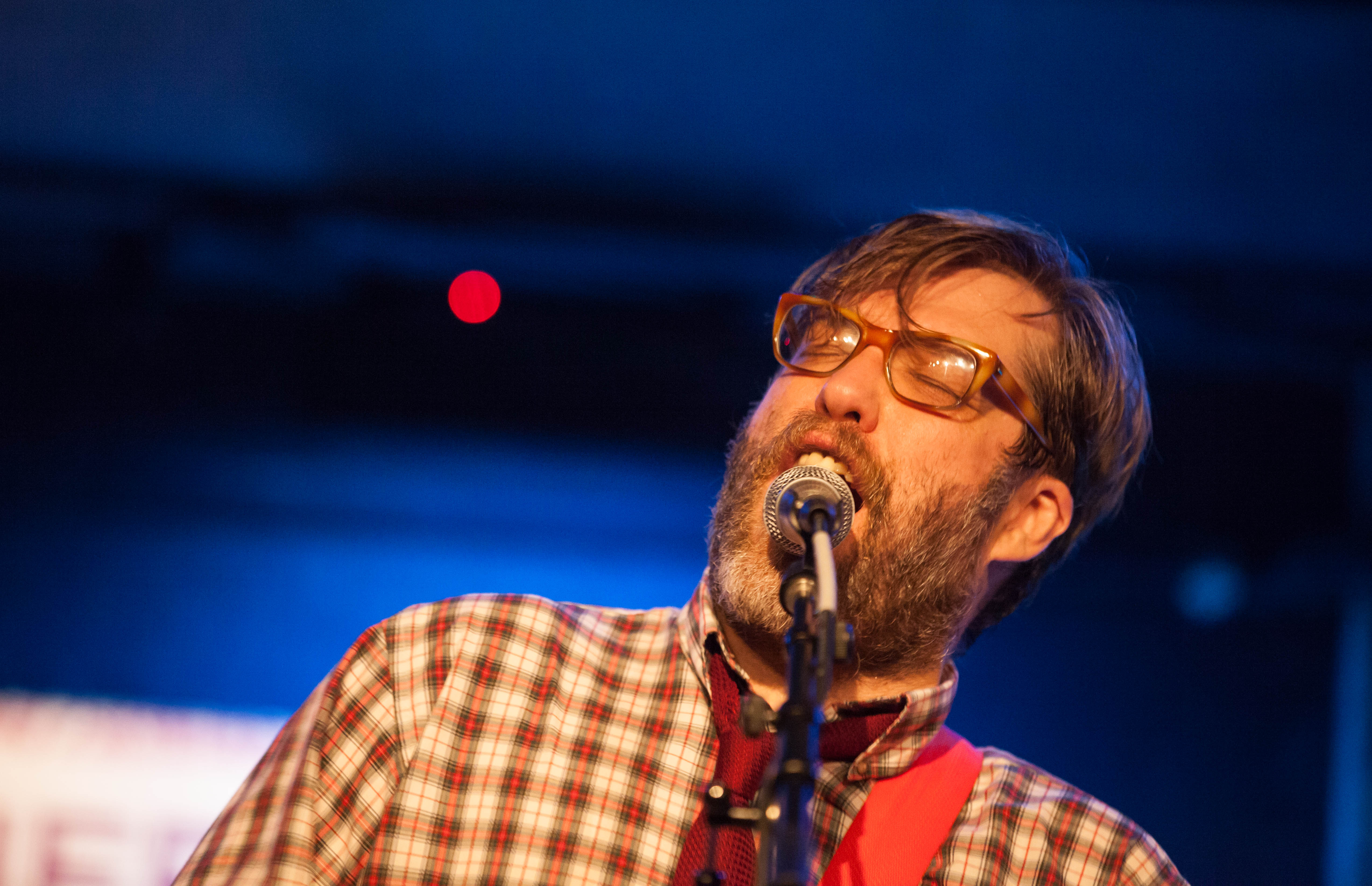 John Roderick performing at the City Winery in New York City during his One Christmas at a Time Tour